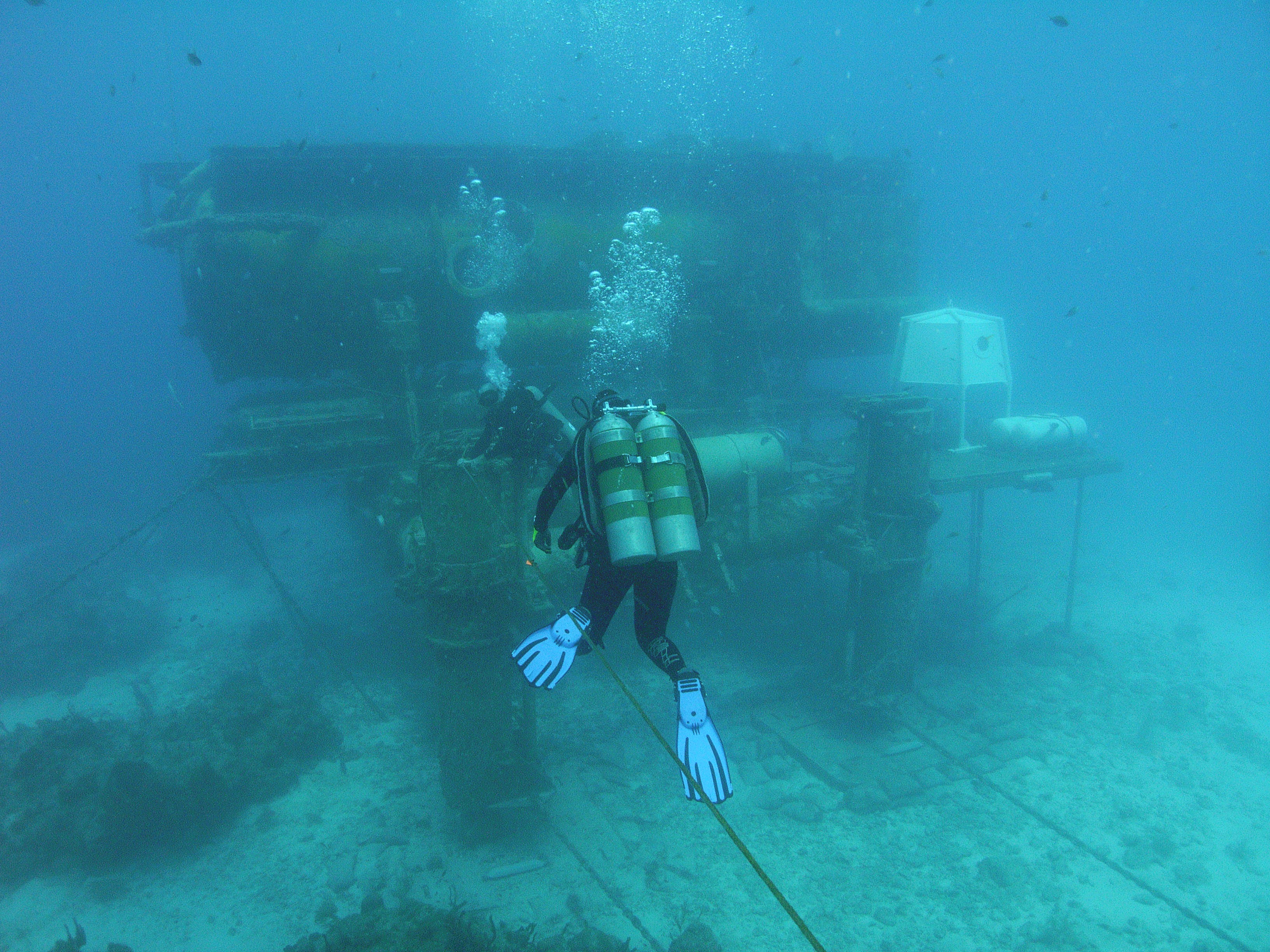 JSC2007-E-21796 - NEEMO 12 crewmembers make their way to their undersea habitat during a training session for the NASA Extreme Environment Mission Operations (NEEMO) project. The crew is spending 12 days, May 7-18, on an undersea mission aboard the National Oceanic and Atmospheric Administration's (NOAA) Aquarius Underwater Laboratory, which is operated by the University of North Carolina at Wilmington and located off the coast of Key Largo, Florida.